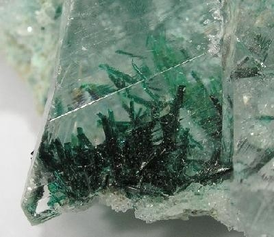 Atacamite, Gypsum (Var.: Gypsum) Locality: Lily Mine (Lilly Mine), Pisco Umay, Ica Department, Peru (Locality at ) Size: 6.3 x 4.7 x 3.5 cm. In the mid-1990s beautiful combination specimens of atacamite in gypsum were available from the Lily Mine. This is a fine example where the dark green atacamite is included in transparent, colorless crystals of gypsum, which measure up to 2.5 cm in length. Ex. Martin Zinn Collection.